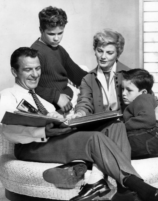 Photo of the Cleaver family from the television program Leave it to Beaver. From left: Hugh Beaumont (Ward), Tony Dow (Wally), Barbara Billingsley (June), Jerry Mathers (Theodore AKA "Beaver").